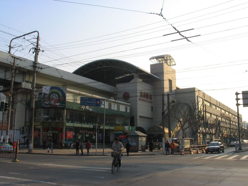 寶山路站 Baoshan Road Station